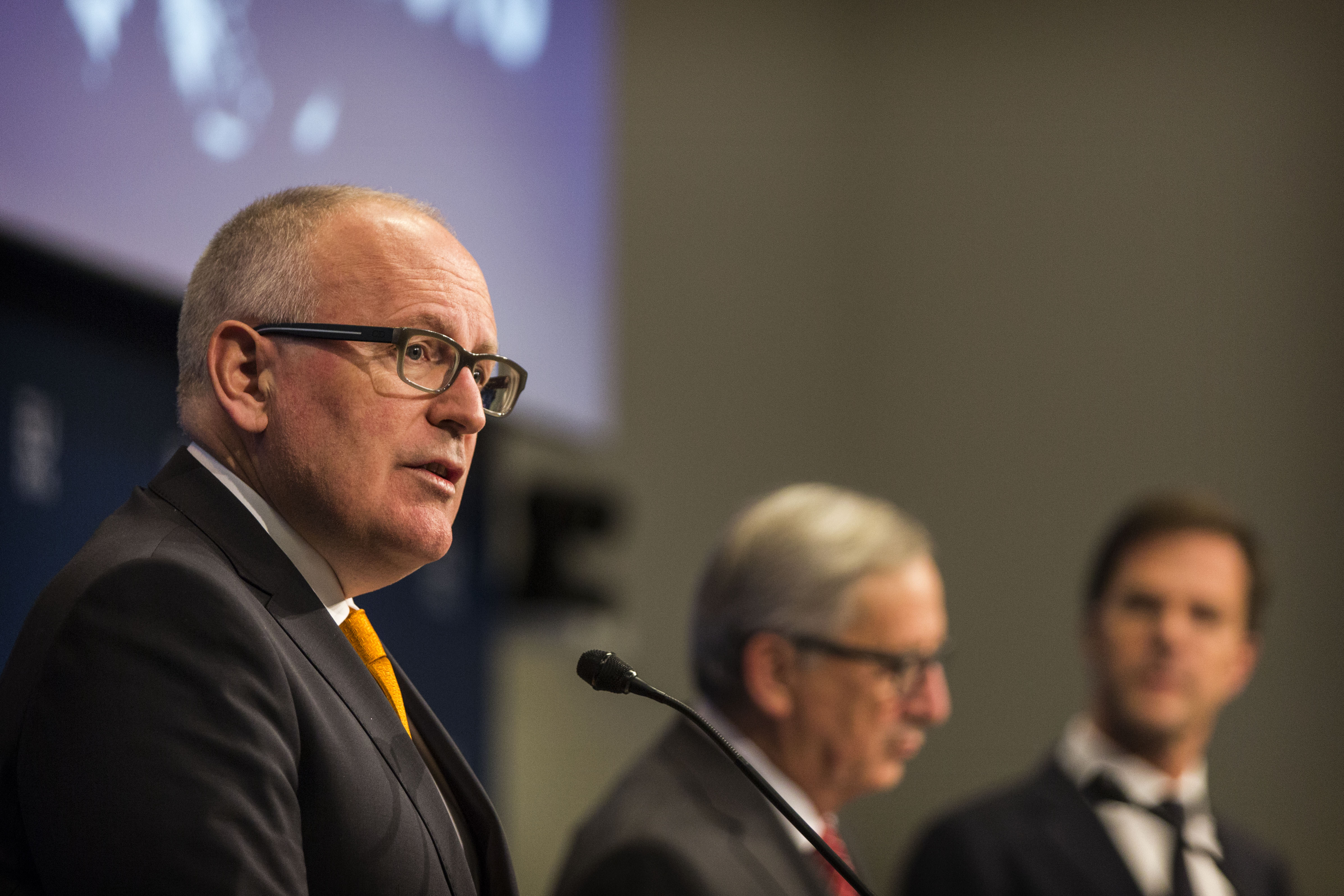 Amsterdam, 7 januari 2016 / Amsterdam, January 7th 2016. Persconferentie premier Mark Rutte, Voorzitter Europese Commissie Jean-Claude Juncker en Frans Timmermans. Press conference of Dutch prime minister Mark Rutte, president of the European Commission Jean-Claude Juncker and Frans Timmermans in Amsterdam. Foto: Rijksoverheid/Valerie Kuypers – Photograph: Dutch Government/Valerie Kuypers